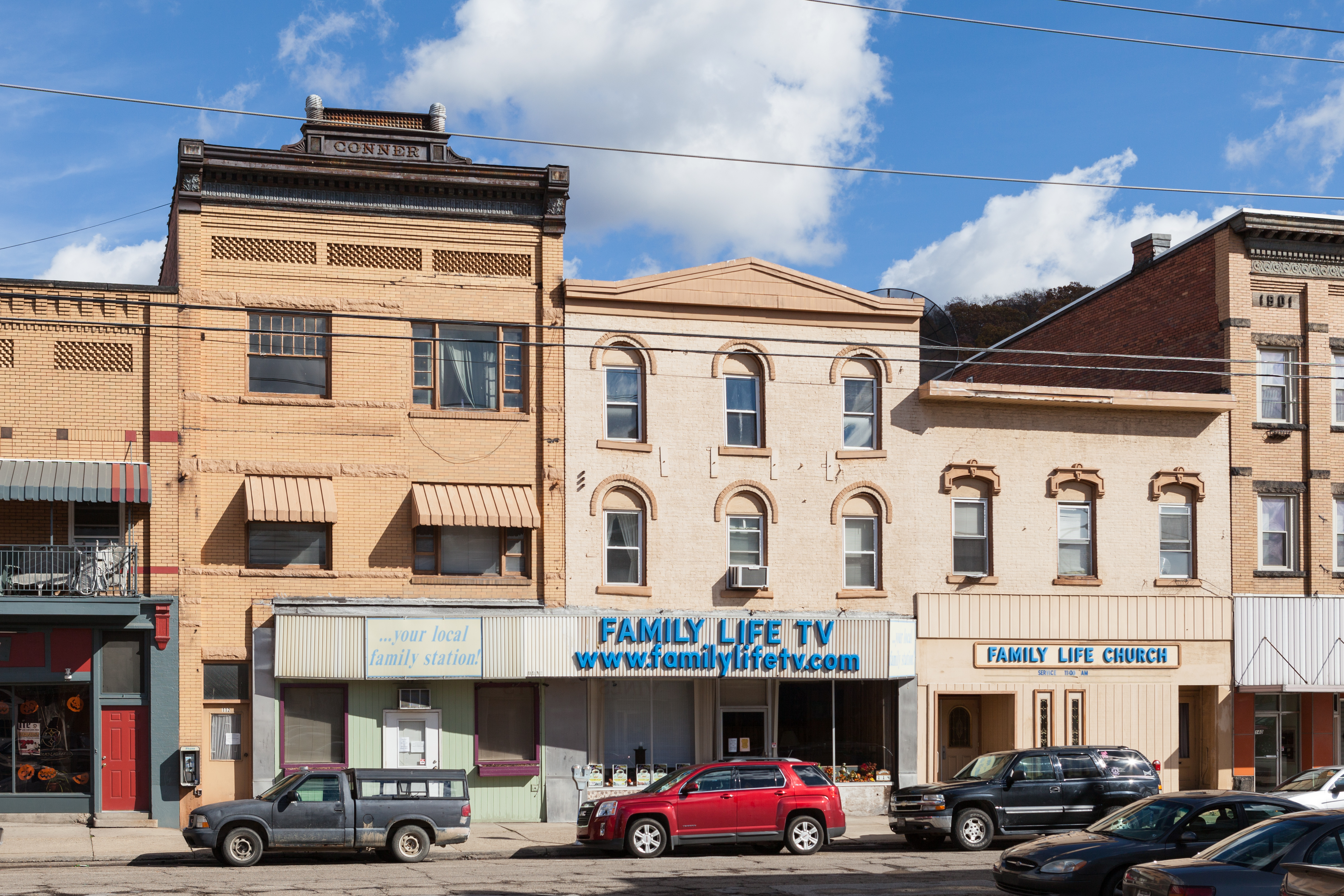 WTYM (AM) studio at 114 South Jefferson Street in downtown Kittanning, Pennsylvania.